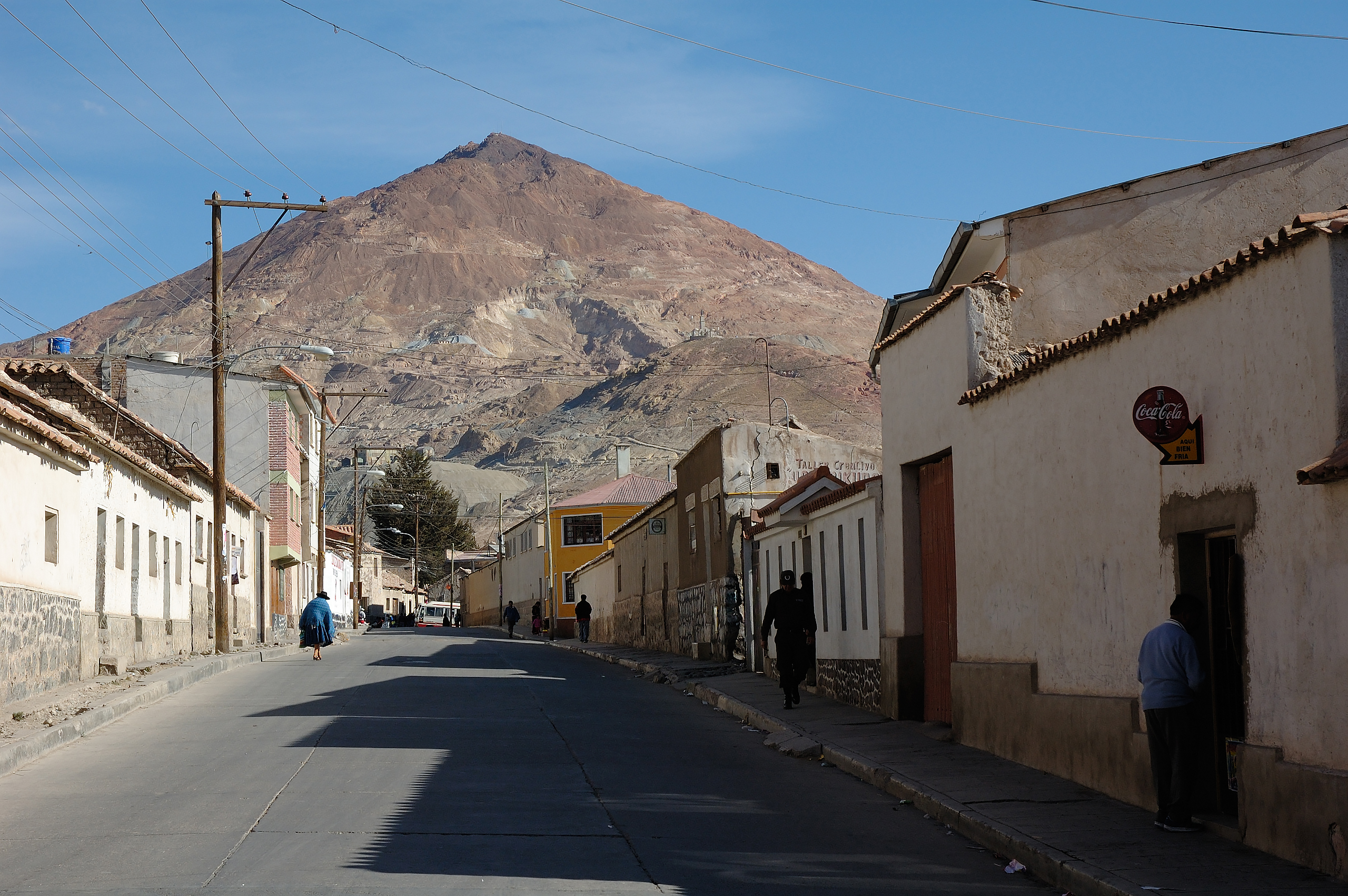 The streets of Potosi are dominated by the "Cerro Rico", the "Wealthy Mountain"